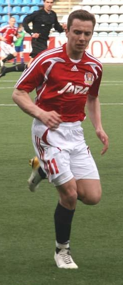 Roman Kagazezhev in action for FC Smolensk